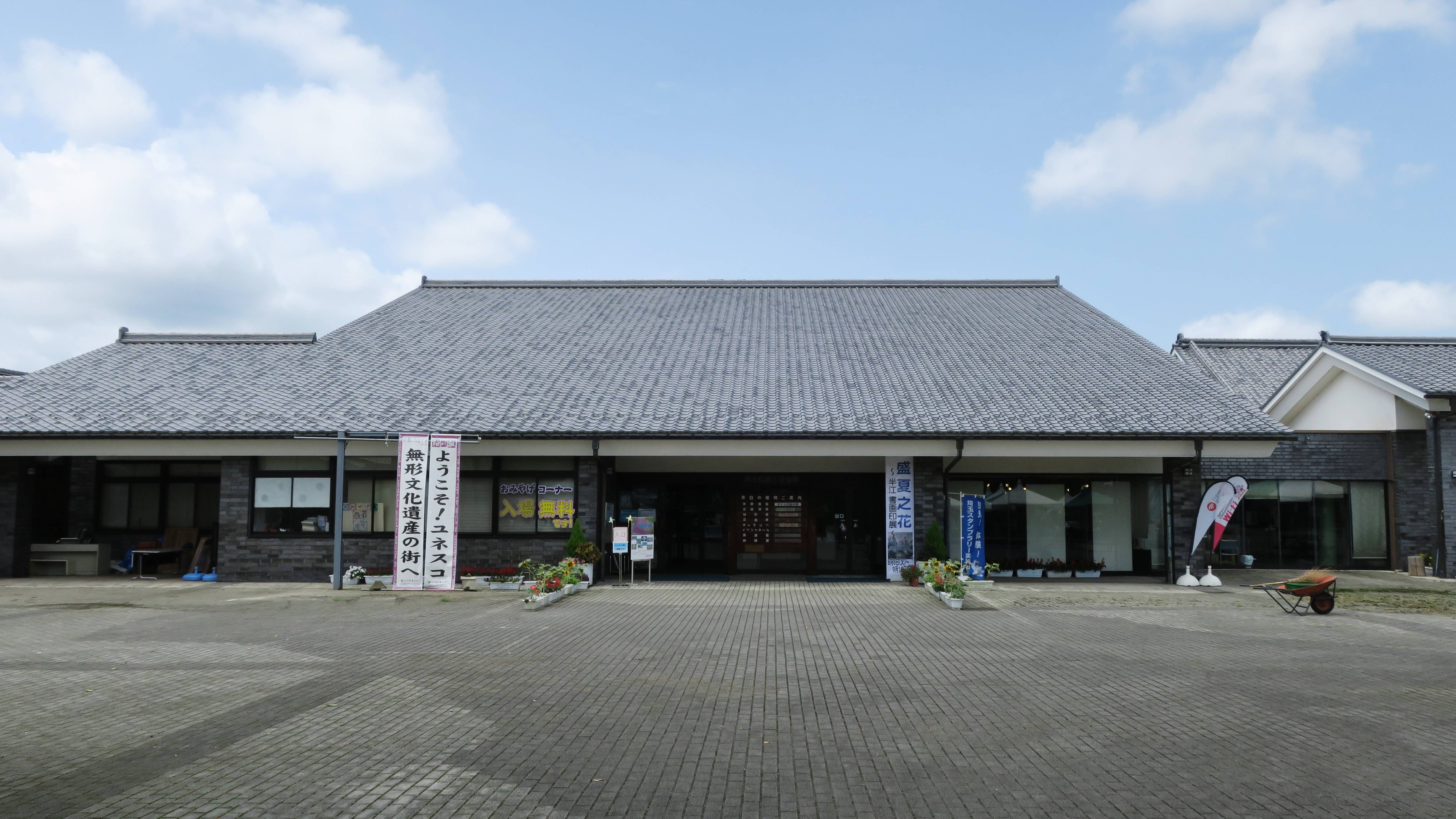 Michinoeki Ogawamachi Saitama Craft Center (Ogawa, Saitama).